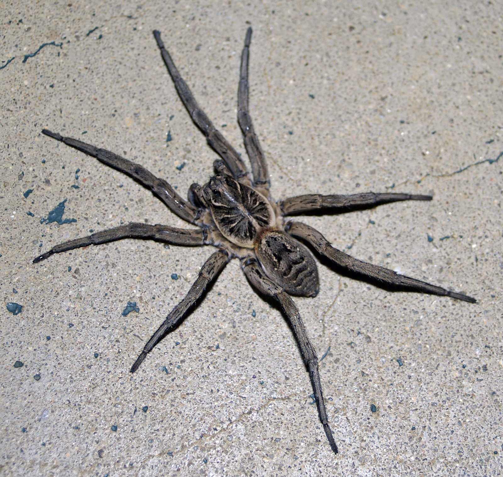 Lycosa leuckarti (Wolf spider) photographed in Wagga Wagga, New South Wales, Australia. Because this photograph concerns privacy since this was taken on a private property, only an approximate location is provided: Wagga Wagga, New South Wales, Australia